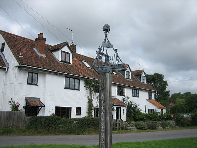 Large house by Swannington village sign. Although in the centre of the village, this house looked out over a sheep pasture: 530925